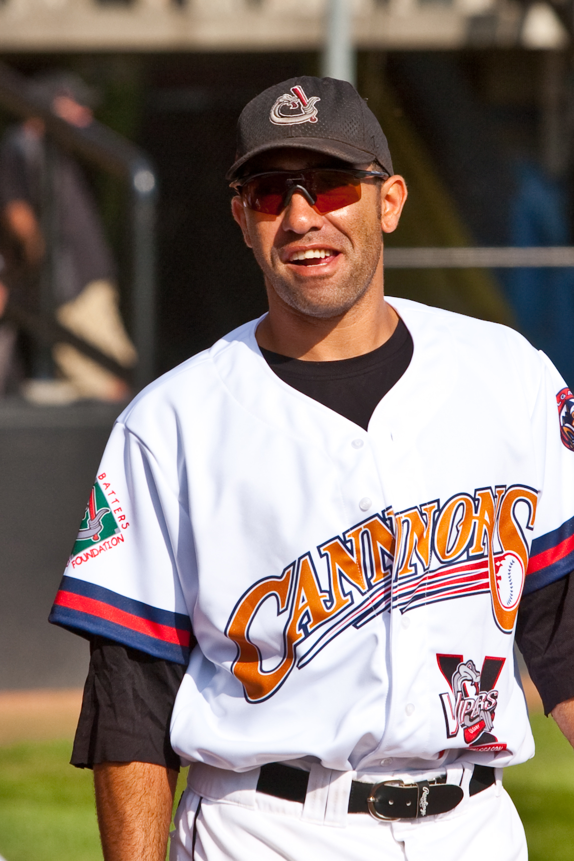 Fehlandt Lentini wearing a Calgary Cannons jersey while playing with the Calgary Vipers in 2009